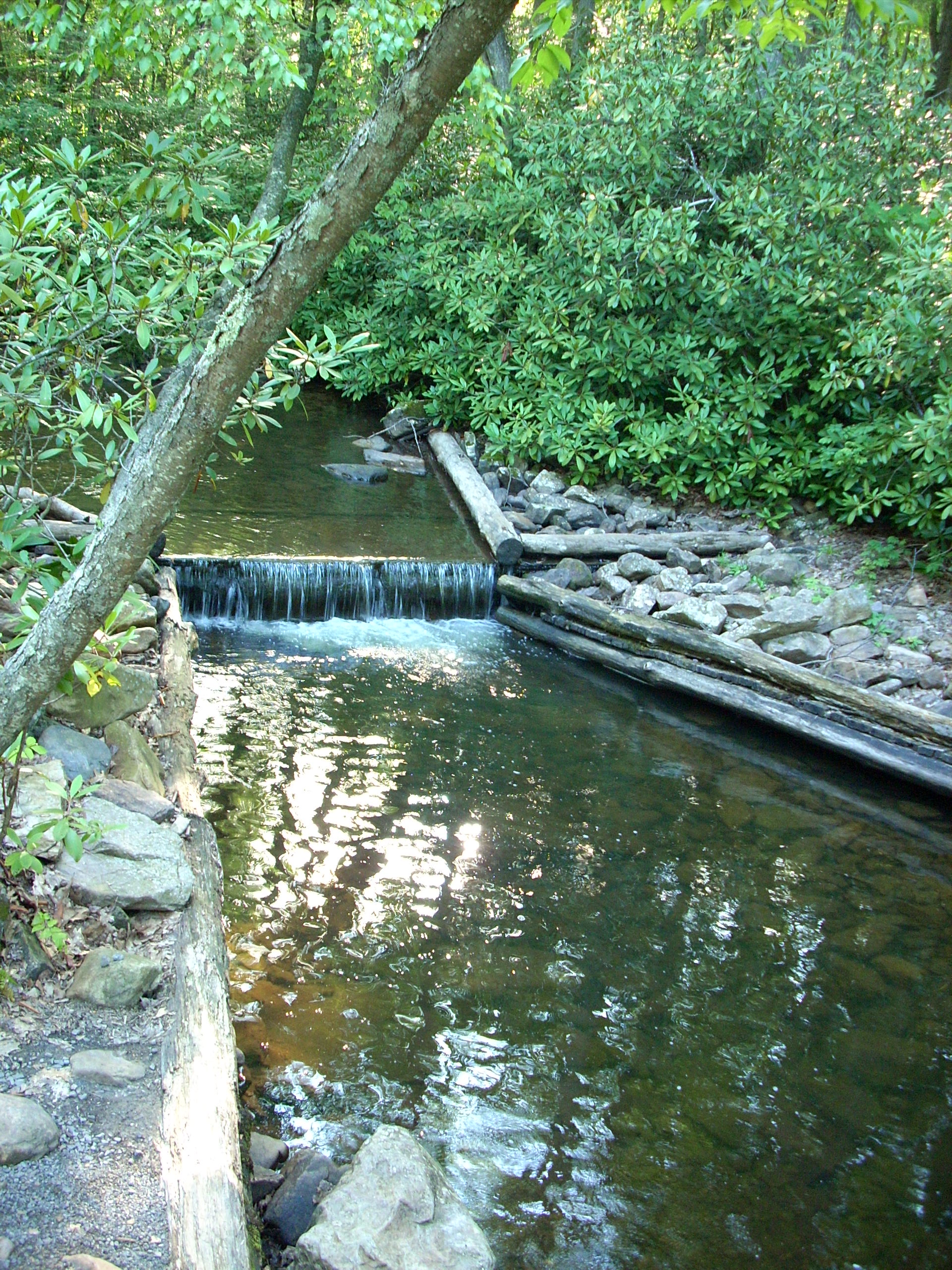 Dam on Rapid Run in Sand Bridge State Park, Union County, Pennsylvania, USA.